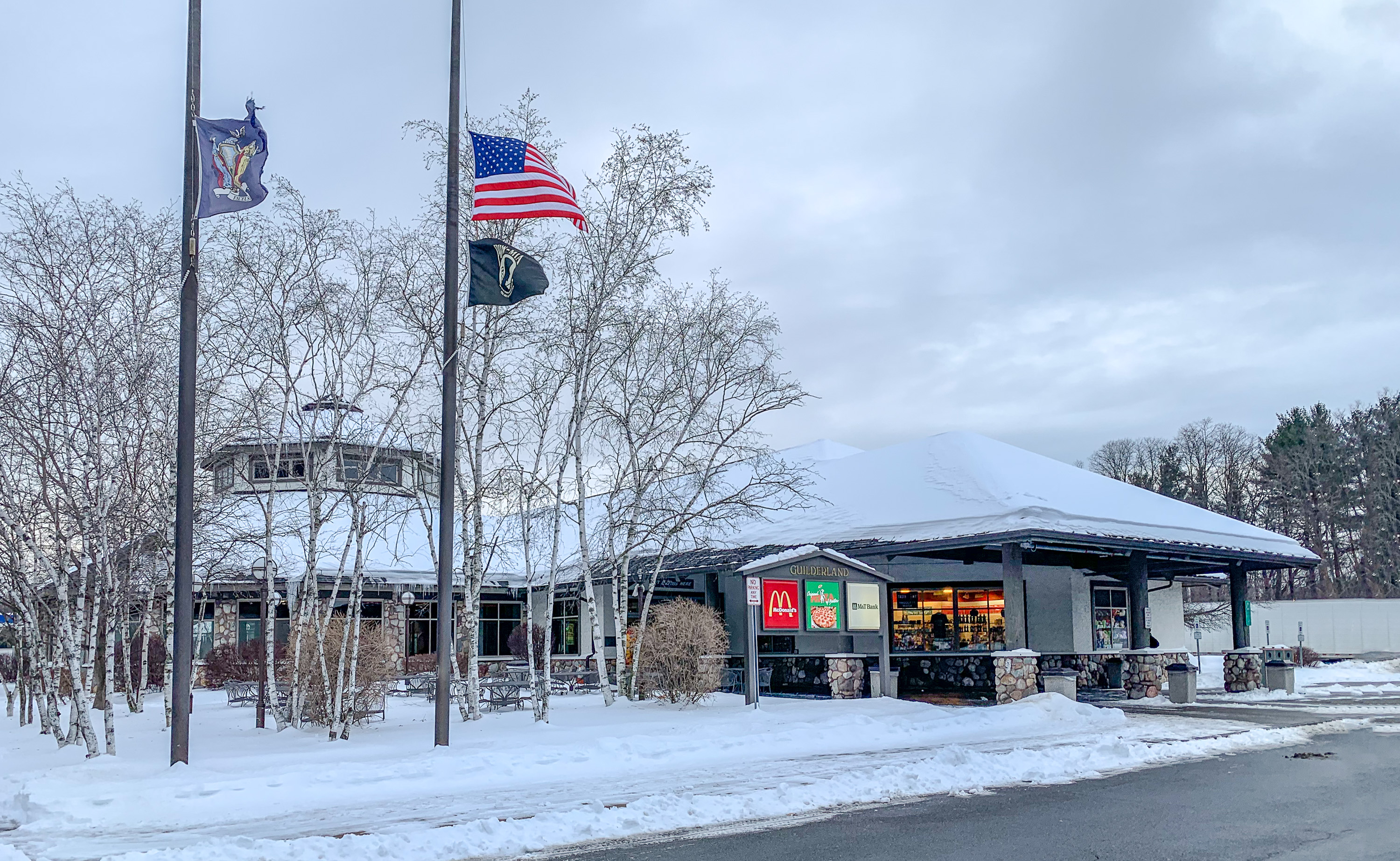 Guilderland Service Area on Interstate 90 in Guilderland, New York.